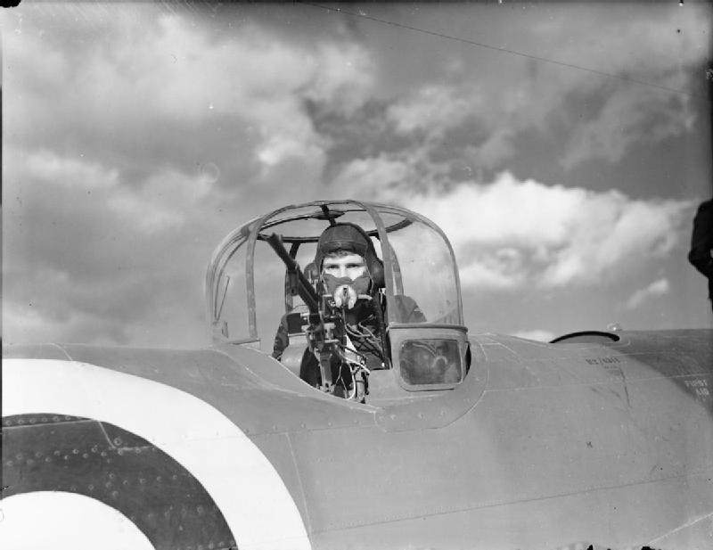 IWM caption : A wireless operator/air gunner mans his Vickers K gun in the turret of an RAF Bristol Blenheim Mk I at Menidi/Tatoi, Greece.